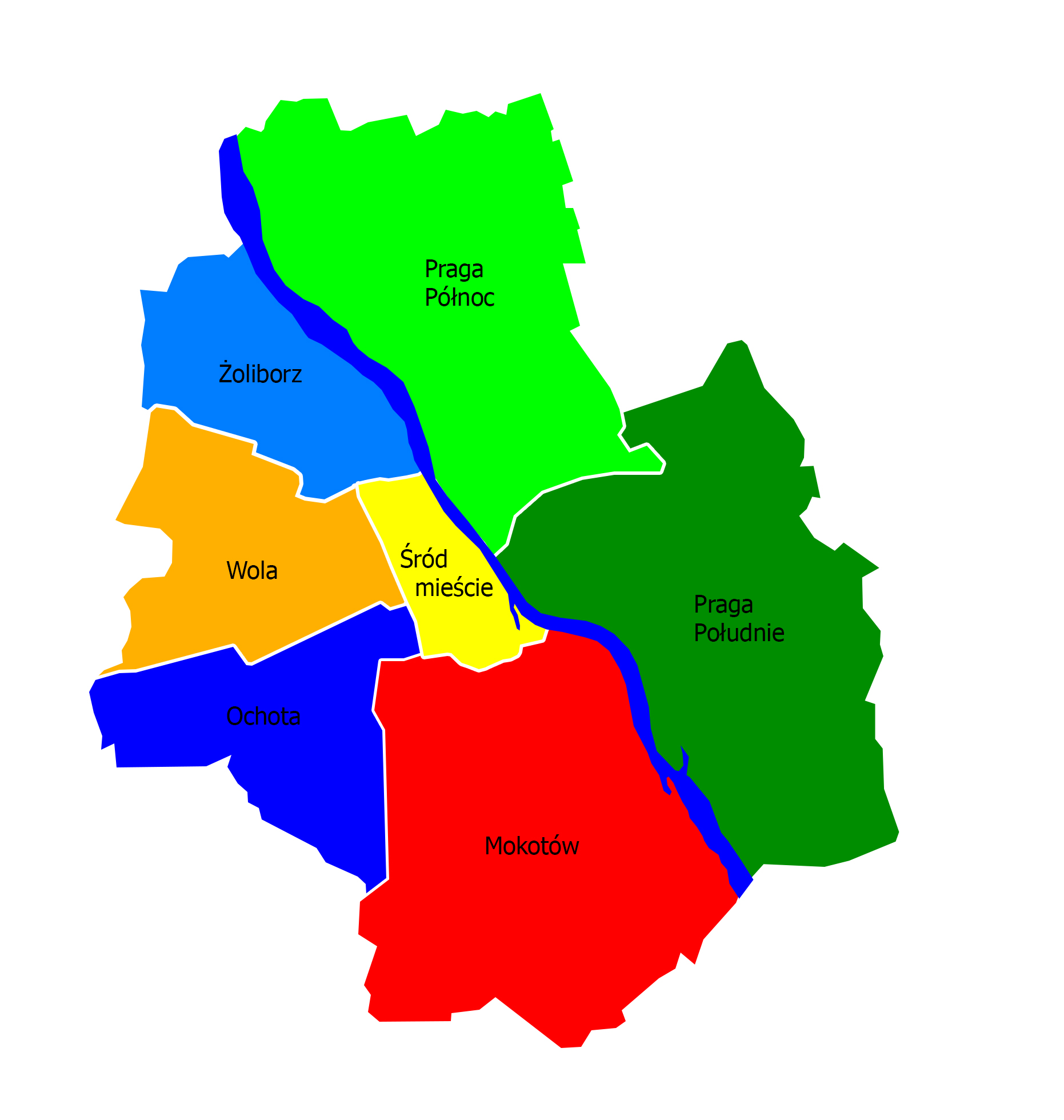 Administrative division of Warsaw,PL beetween 1990 and 1993